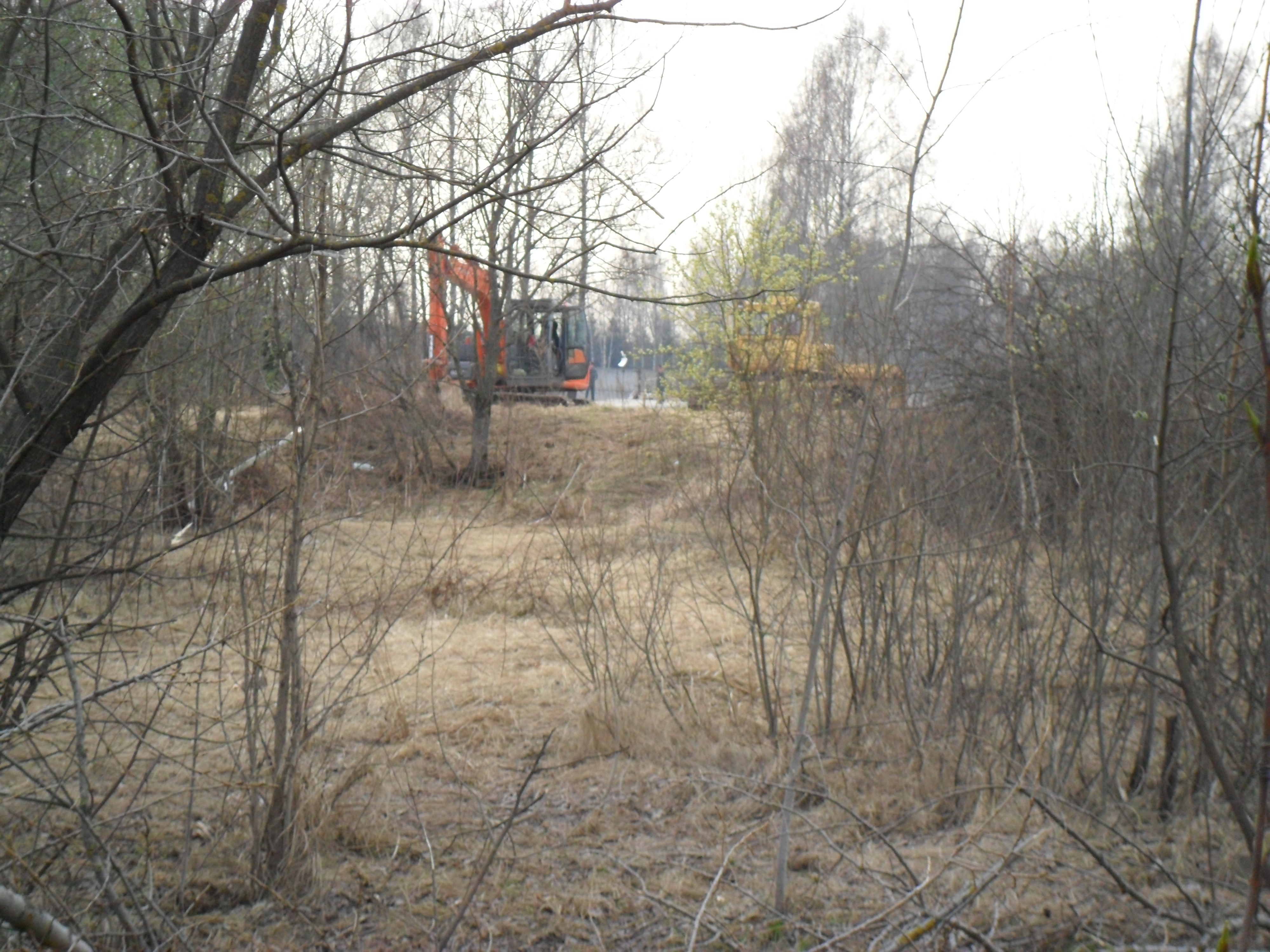 Photo from the area of the 2010 Polish Air Force Tu-154 crash, near Smolensk, Russia.